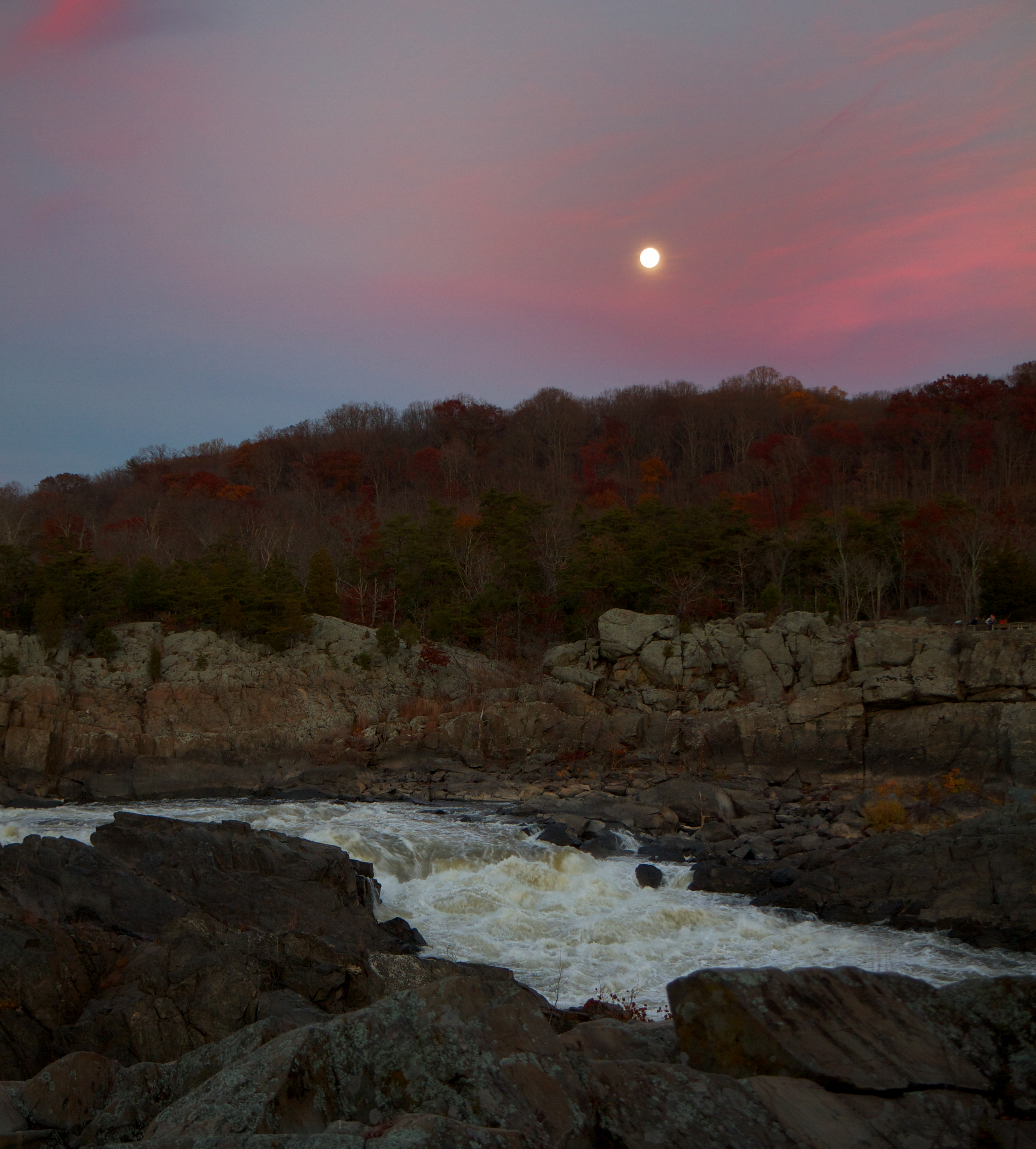 View of an early evening full moon rising over the Great Falls on the Potomac River Great Falls, Virginia